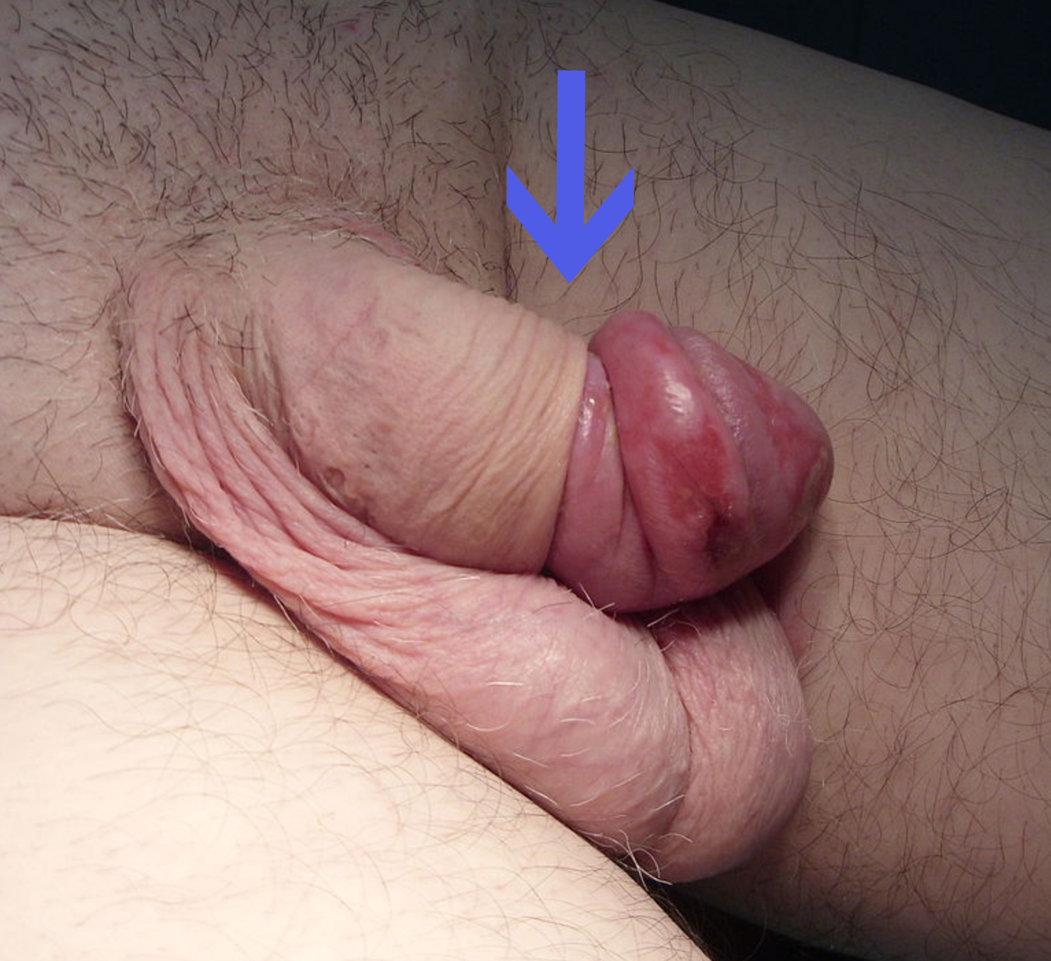 paraphimosis of four days duration in a 45 years old diabetic patient.